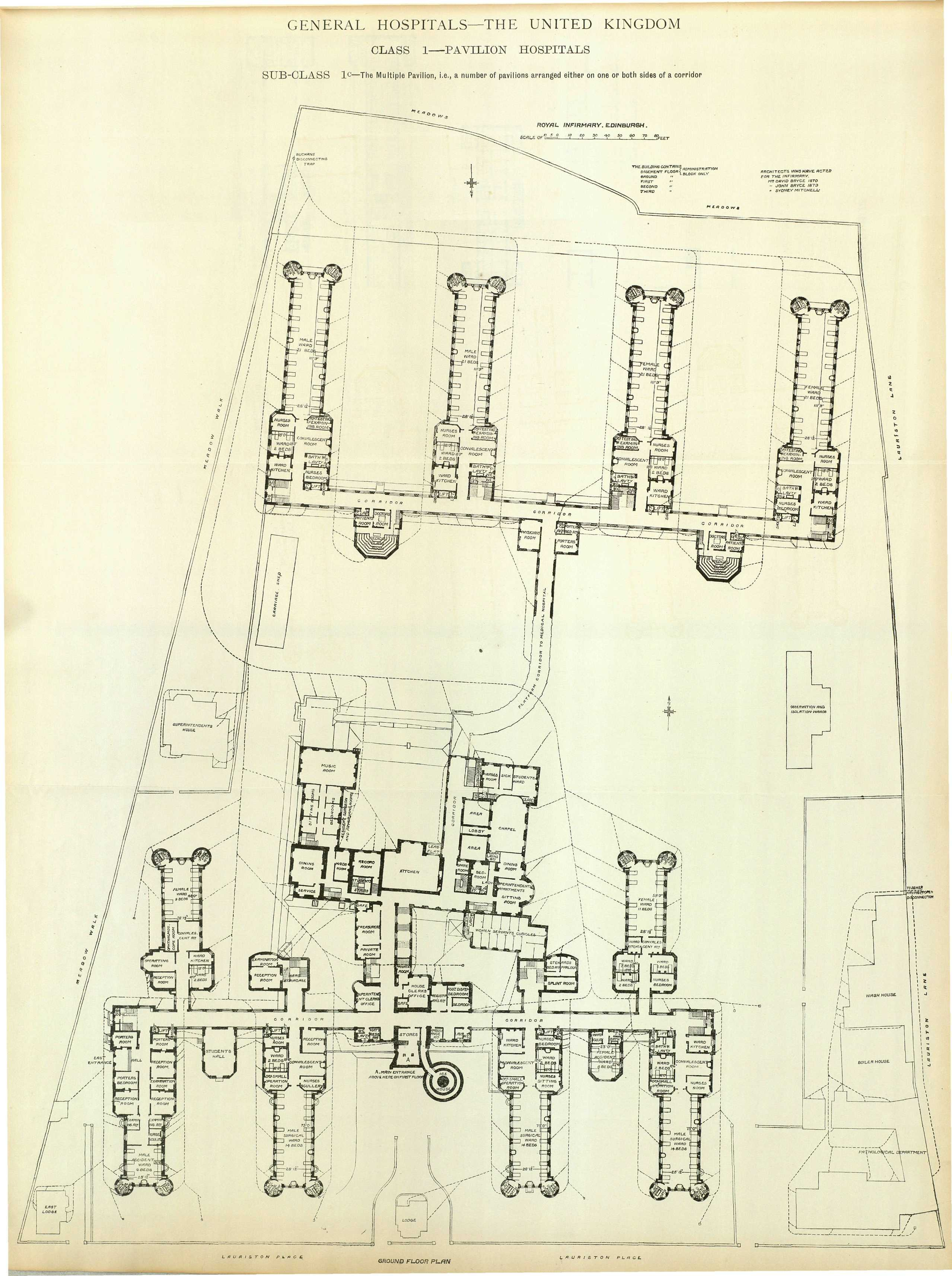 An individual page from the scanned book: Hospitals and Asylums of the World : Portfolio of Plans (1893)